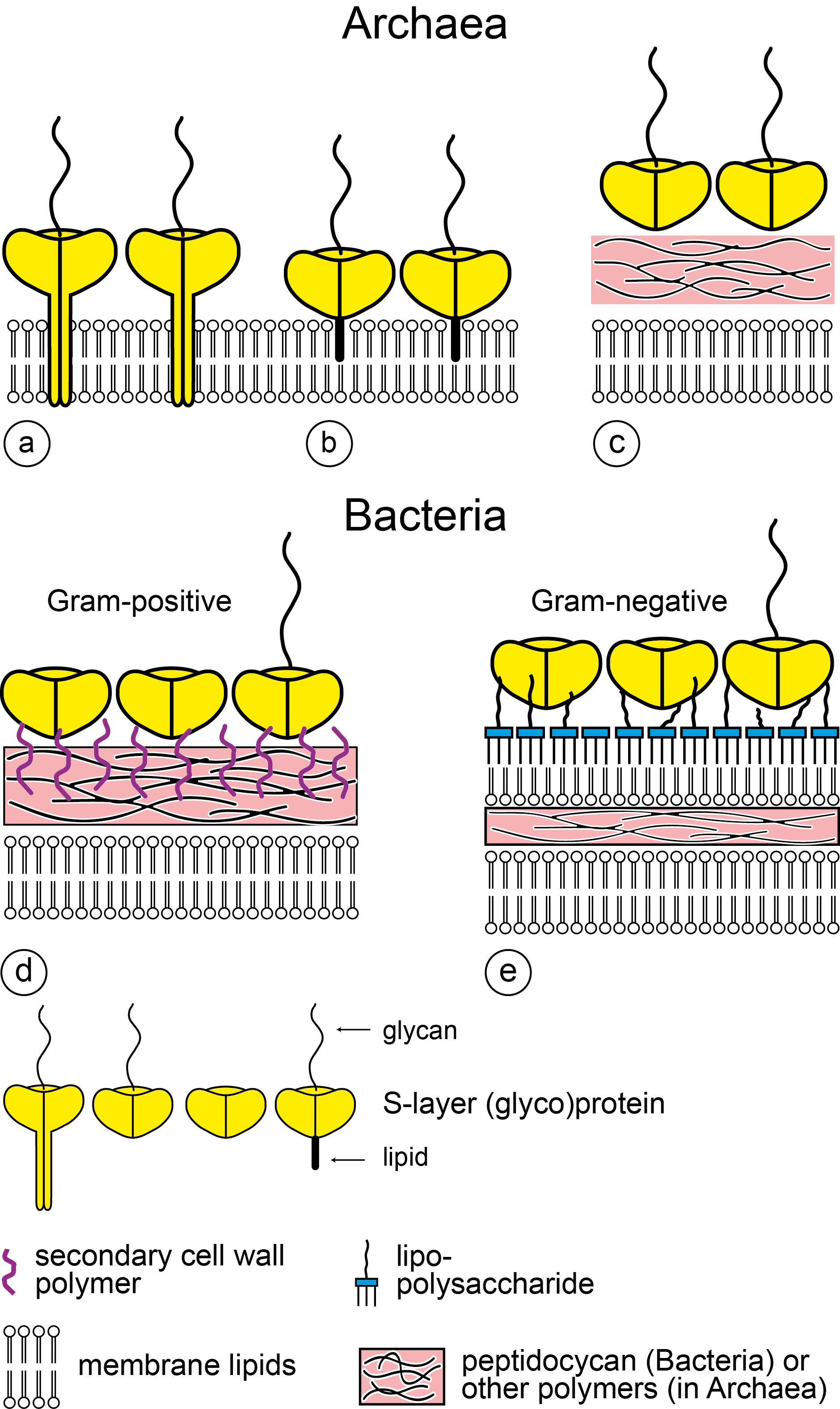 Schematic illustration of the supramolecular architecture of the major classes of prokaryotic cell envelopes containing surface layers (S-layers). Schematic illustration of the supramolecular architecture of the major classes of prokaryotic cell envelopes containing surface (S) layers. S-layers in archaea with glycoprotein lattices as exclusive wall component are composed either of mushroom-like subunits with pillar-like, hydrophobic trans-membrane domains (a), or lipid-modified glycoprotein subunits (b). Individual S-layers can be composed of glycoproteins possessing both types of membrane anchoring mechanisms. Few archaea possess a rigid wall layer (e.g. pseudomurein in methanogenic organisms) as intermediate layer between the plasma membrane and the S-layer (c). In Gram-positive bacteria (d) the S-layer (glyco)proteins are bound to the rigid peptidoglycan-containing layer via secondary cell wall polymers. In Gram-negative bacteria (e) the S-layer is closely associated with the lipopolysaccharide of the outer membrane. Figure and figure legend were copied from Sleytr et al. 2014